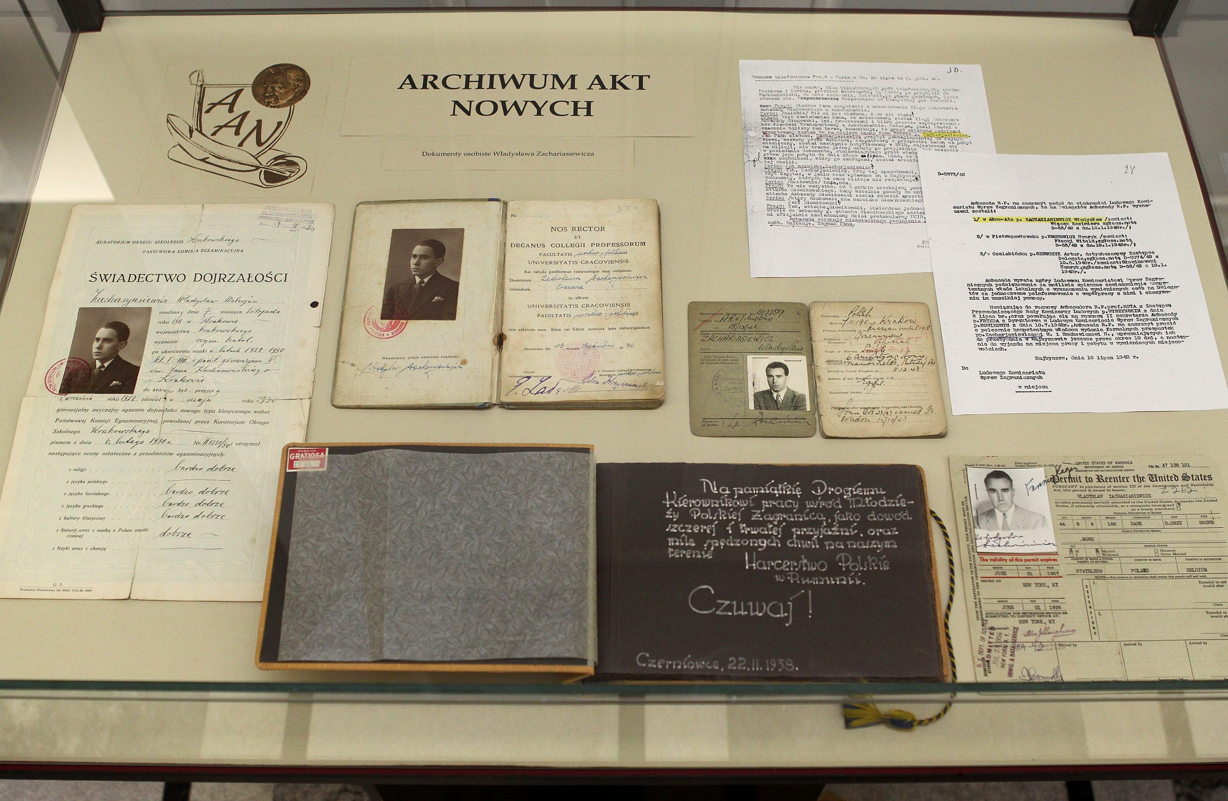 Władysław Zachariasiewcz's documents donated to the Central Archives of Mosern Records presented in the Polish Senate